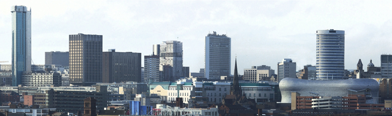 Skyline of Birmingham, UK. Buildings visible include the Rotunda and the Selfridges building.